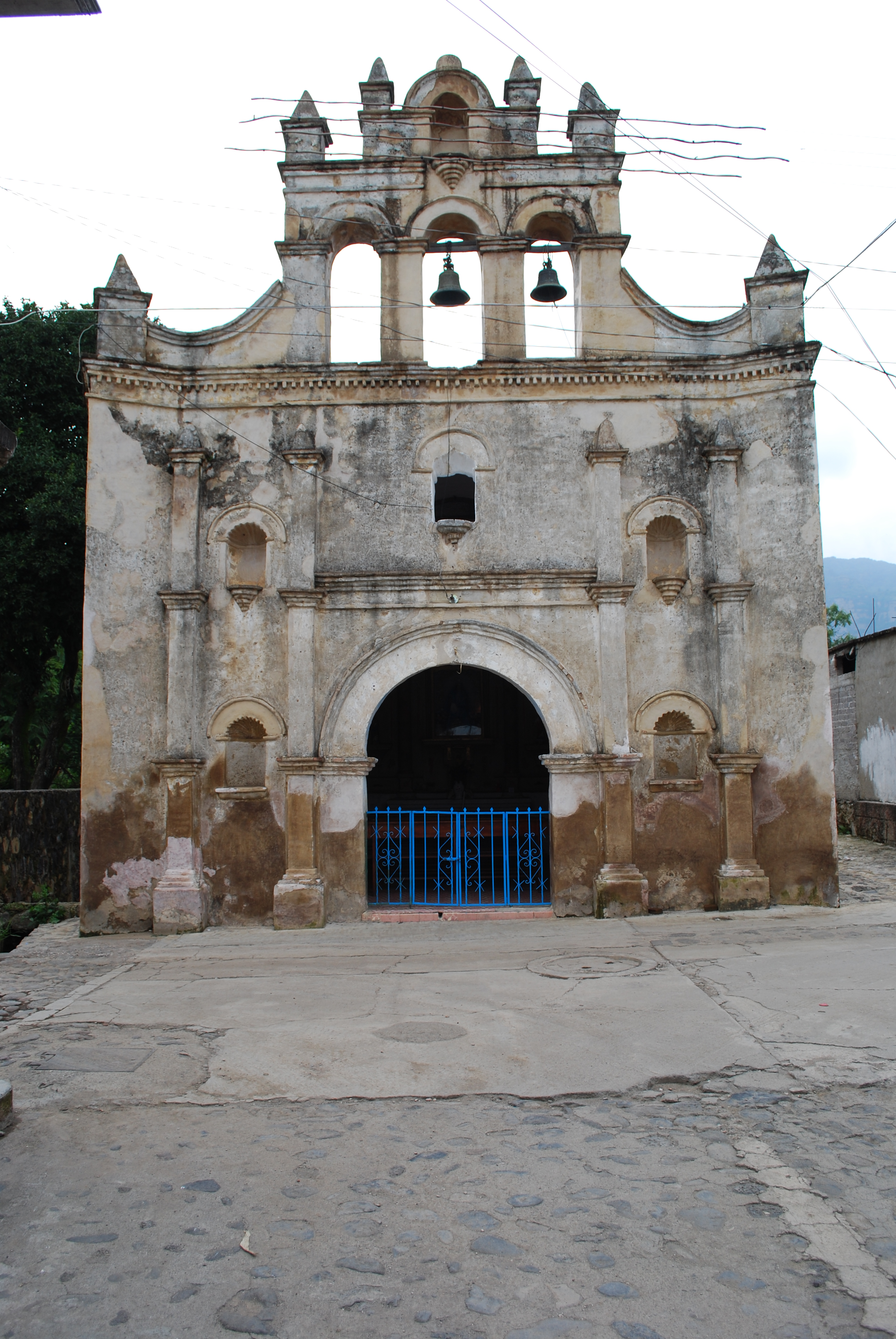 view of the Capilla del Rosario in Tlayacapan, Morelos, Mexico